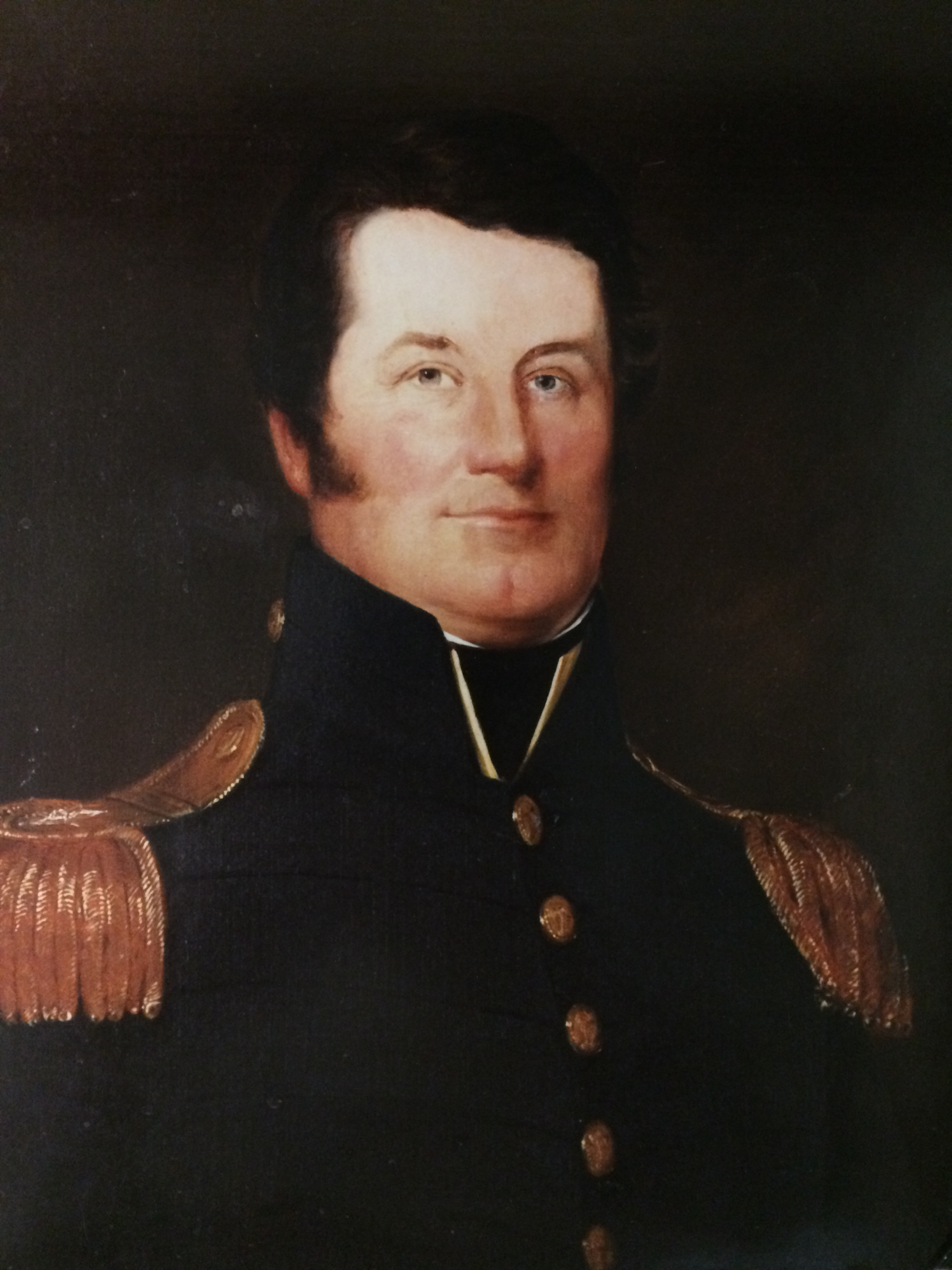 Portrait of General James Willis Cantey